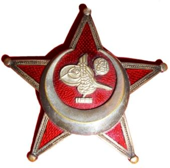 Gallipoli Star photographed from Ian Watts collection.